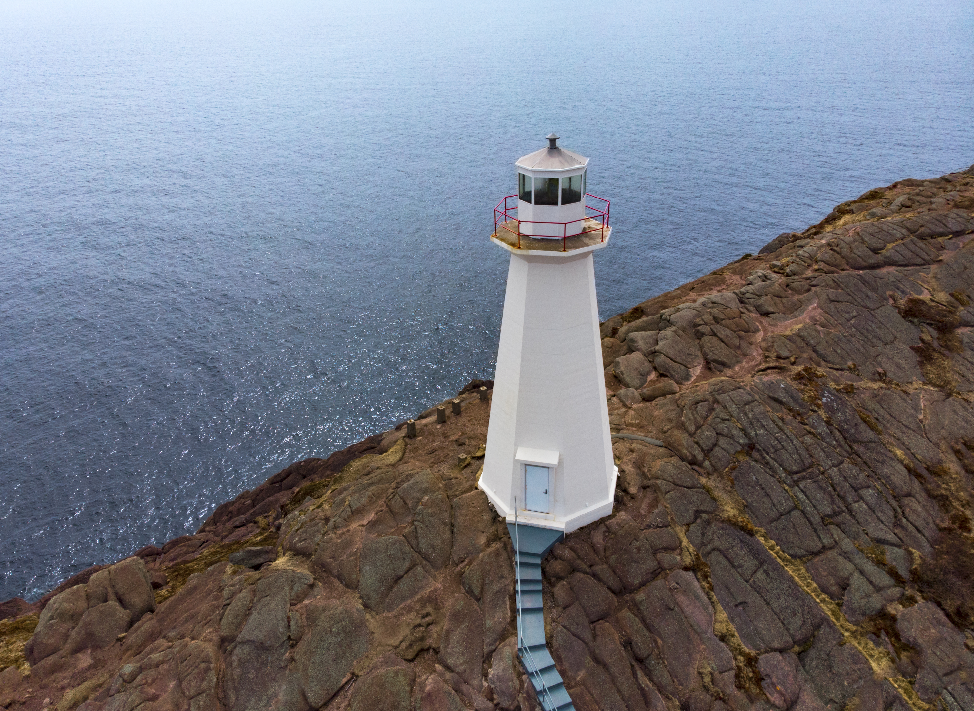 Cape Spear lighthouse